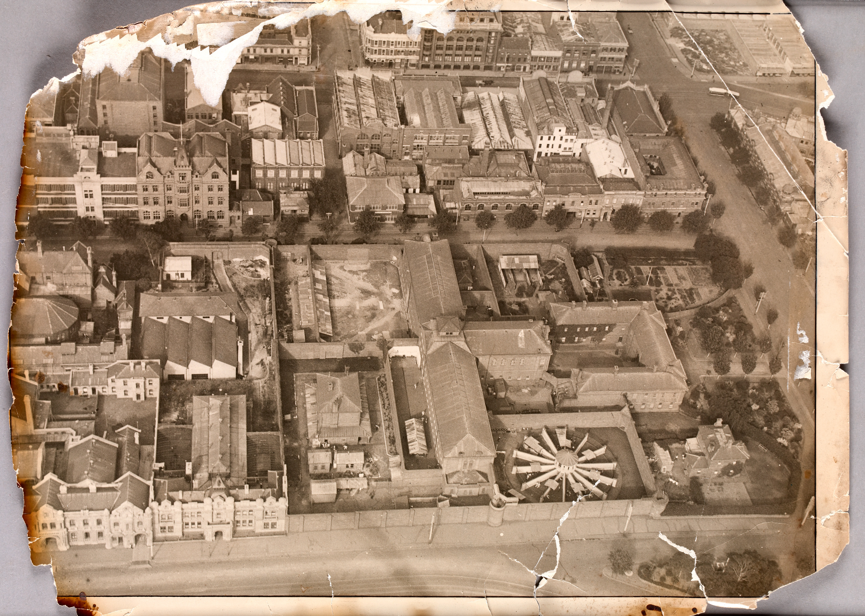 erial view of the old Melbourne Gaol, including the Governor's residence on the site of the later Emily McPherson College (built 1926) as well as the exercise yard. Also shows Bowen Street being used as a public thoroughfare before the construction of the Royal Melbourne Institute of Technology.